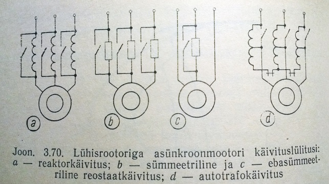 Asünkroonmootori käivituslülitused